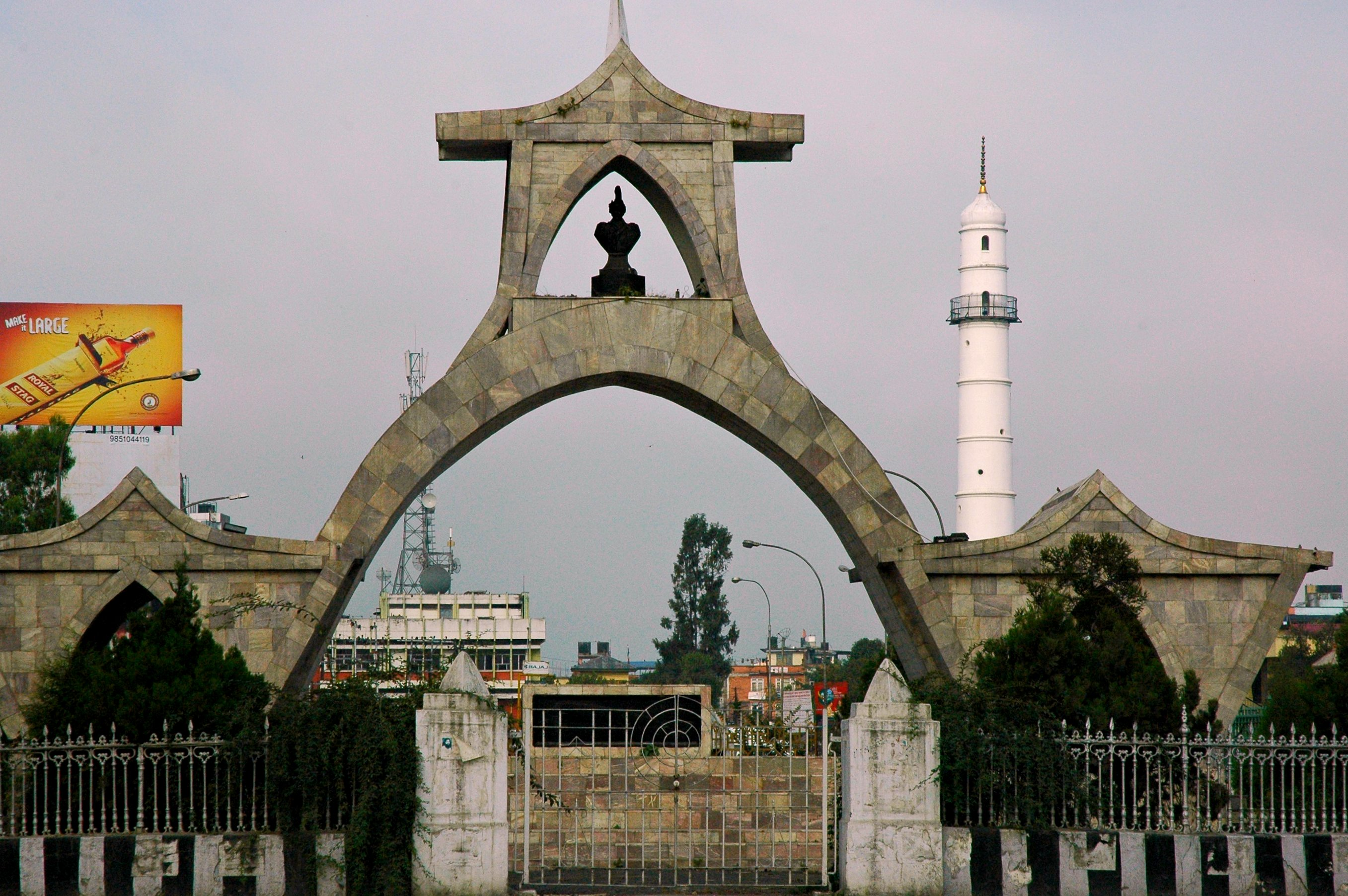 Liquor Ad, Shahid Gate, Broadcast towers, Park and Parade Grounds, Dharahara tower, Kathmandu, Nepal